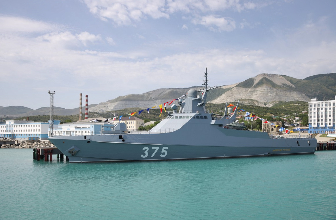 Dmitriy Rogachyov in Sevastopol.